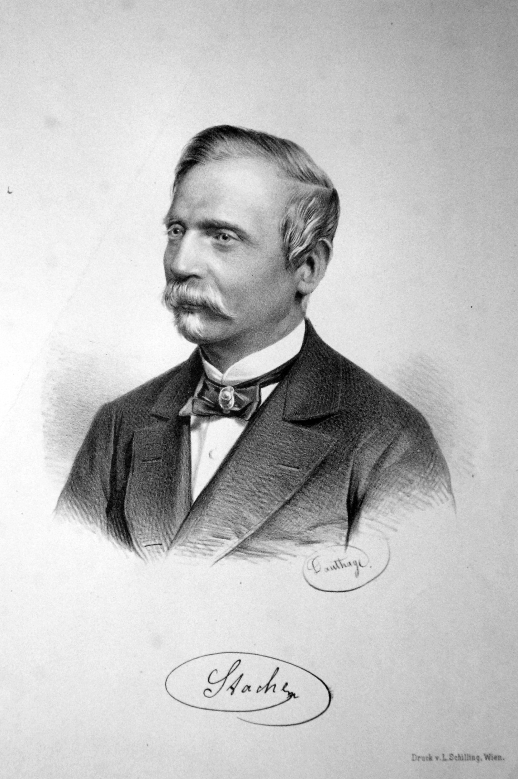 Friedrich August Stache (1814-1895), Austrian Architect Lithograph by August Dauthage, about 1870